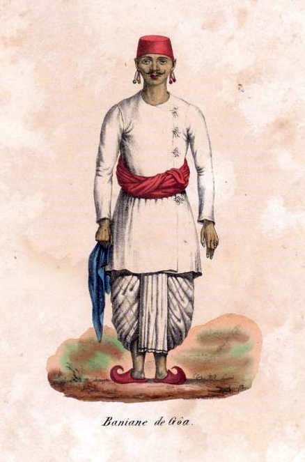 "Baniane de Goa," earlier 1800's; also, other Goans: *a tailor*; *a Chinese barber*; *a Hindu lady* Source: ebay, Mar. 2010